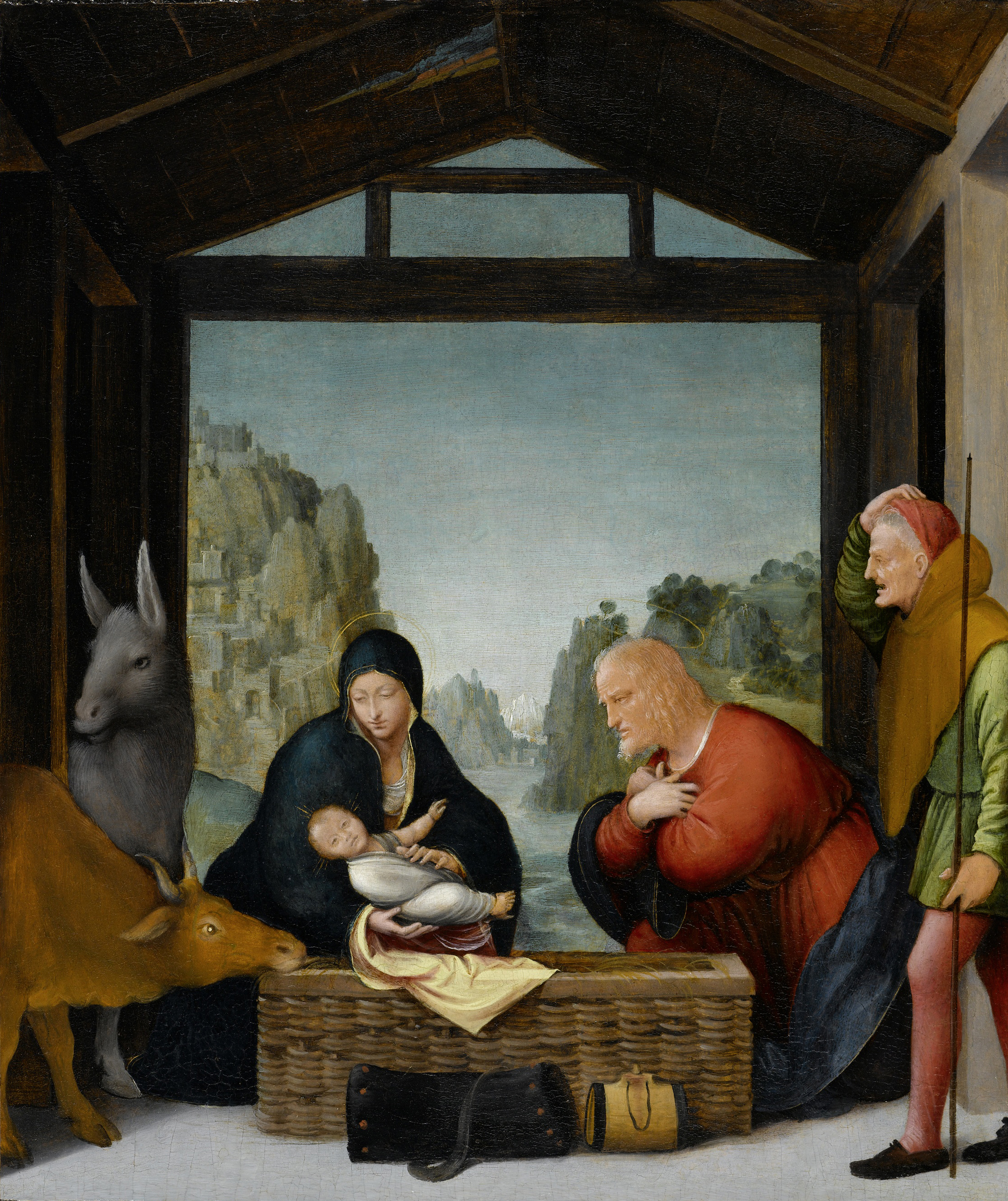 The adoration on the shepherds. The Virgin Mary kneels behind a reed basket holding the Christ child in her arms. To the right Joseph kneels while a shepherd stands behind him. To the left the ox and the ass. Through the stable there is a view onto a rocky landscape with a village and a castle.